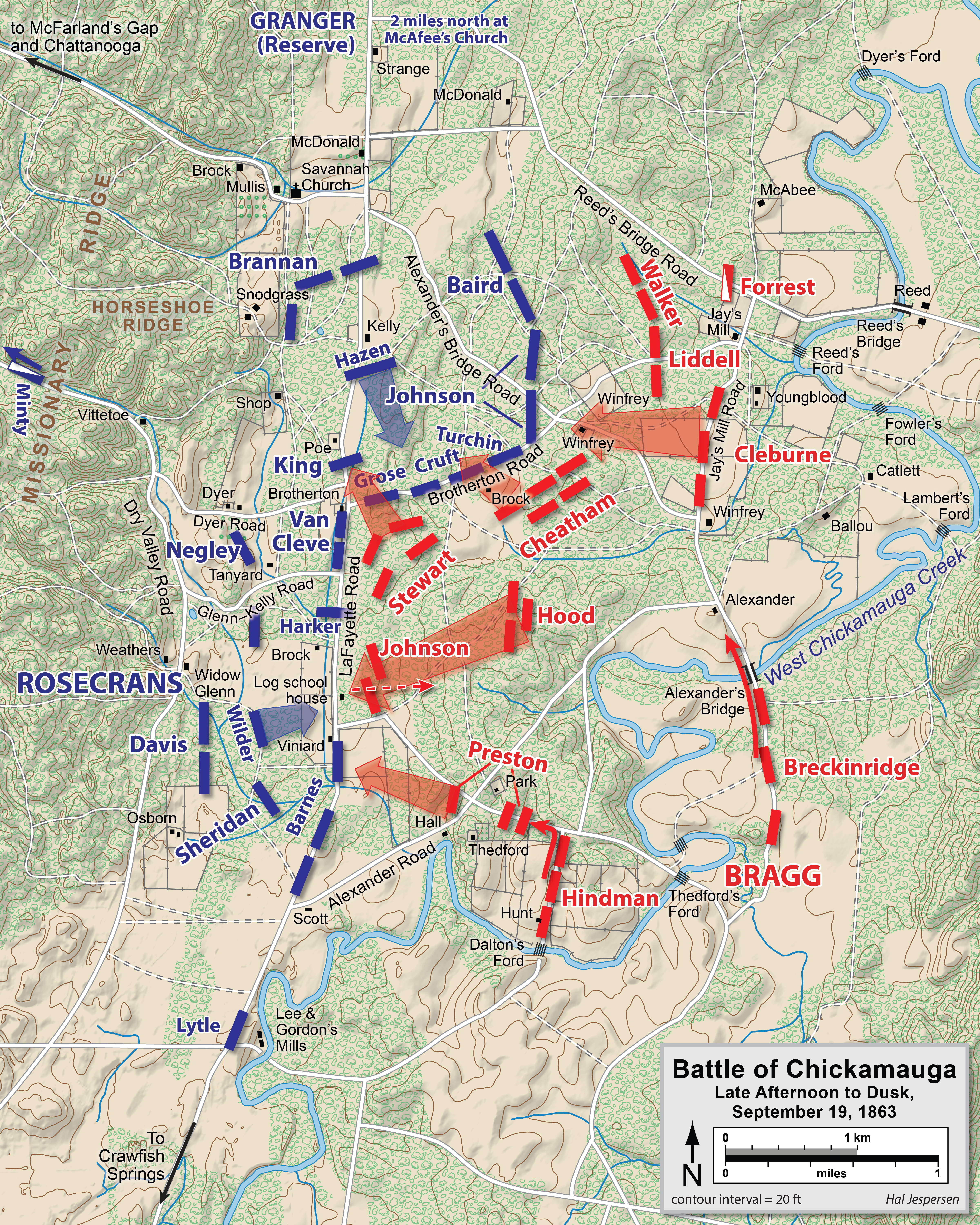 Map of the Battle of Chickamauga (part 3) of the American Civil War. Drawn in Adobe Illustrator CS5 by Hal Jespersen. Graphic source file is available at